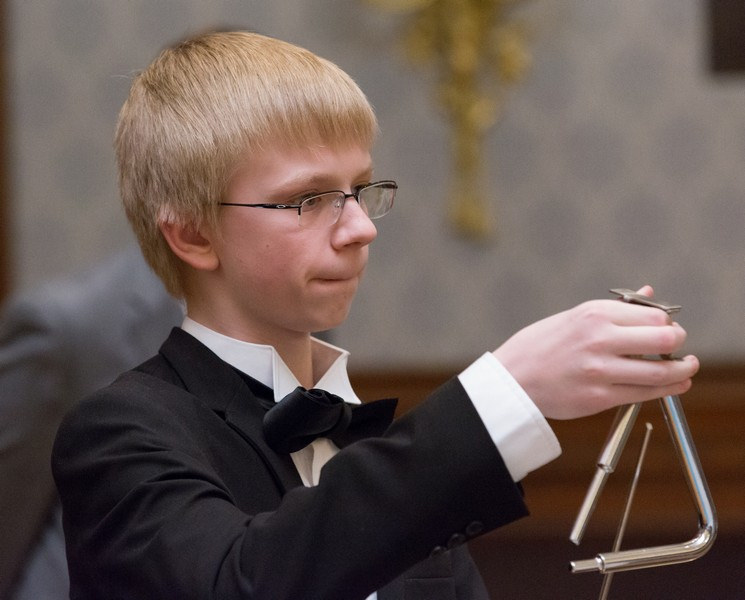 Philadelphia Youth Orchestra